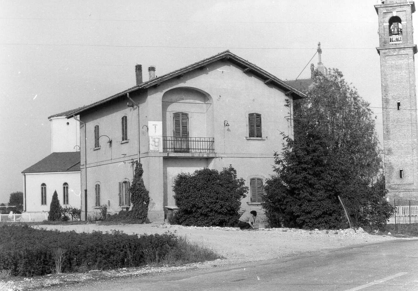 Station of San Sebastiano-Asigliano.